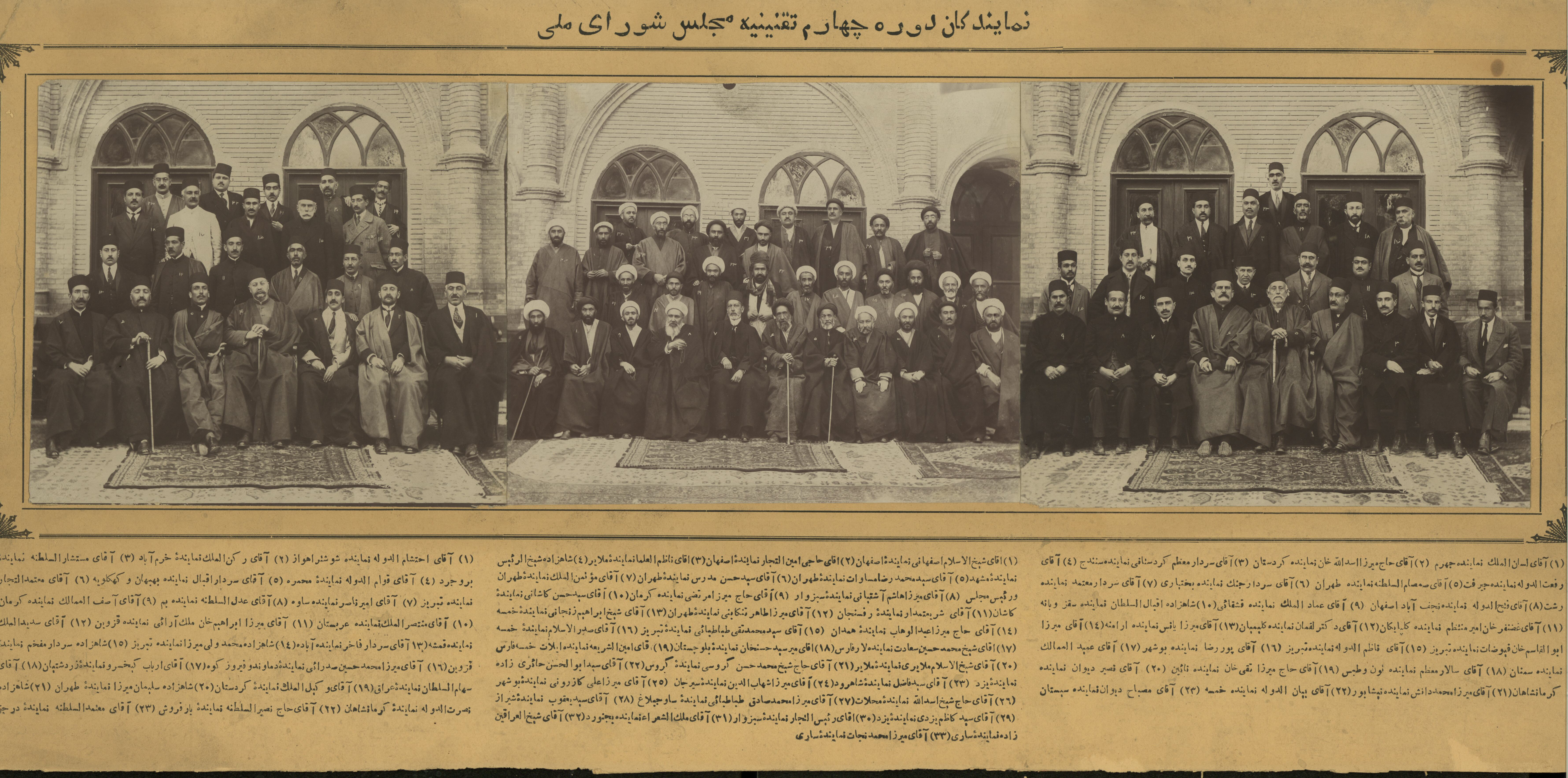 Representatives of the 4th Iranian National Consultative Assembly